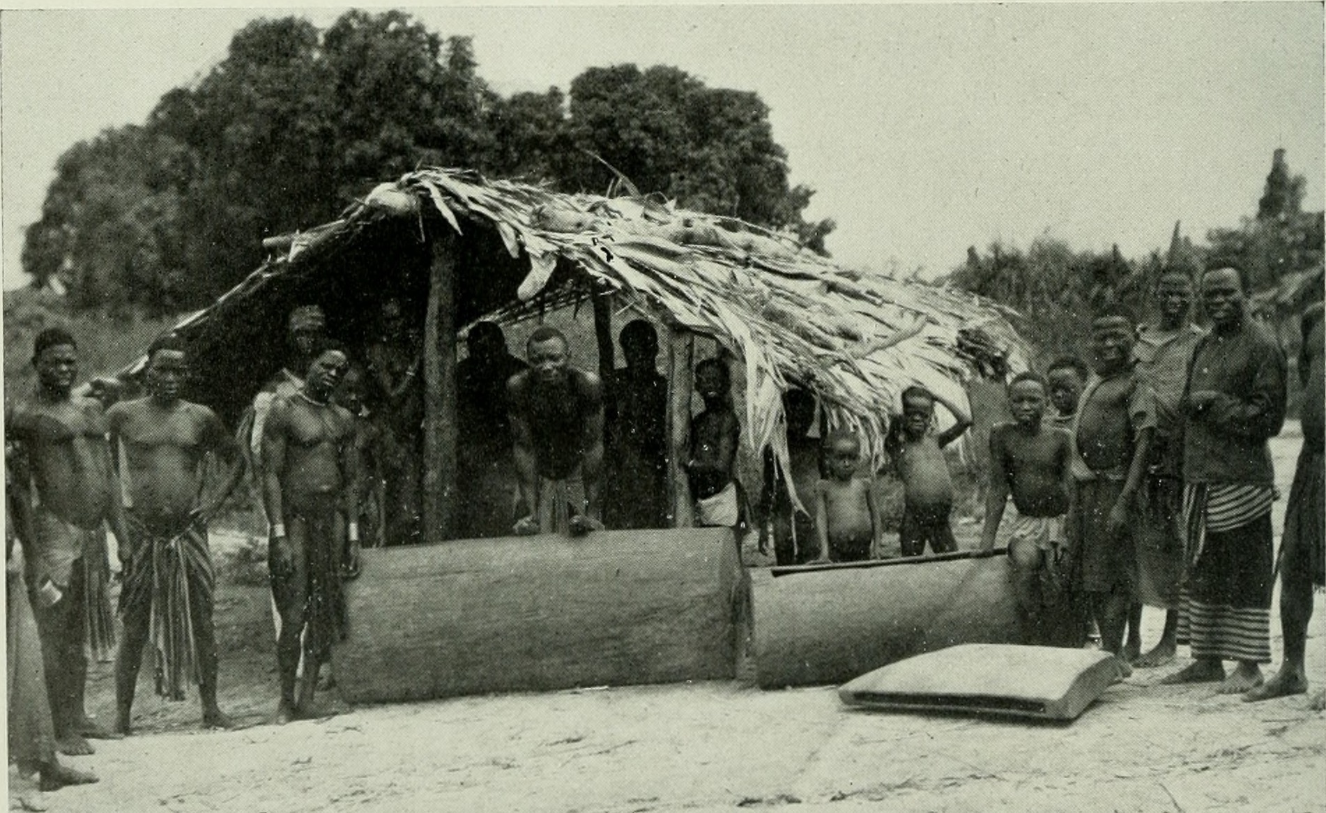 Title: The American Museum journal Year: c1900-(1918) (c190s) Authors: American Museum of Natural History Subjects: Natural history Publisher: New York : American Museum of Natural History Text Appearing Before Image: IVORY CARAVAN A caravan with 97 tusks from the Haut Ituri. The hirgest weighs 106 lbs. and is 9 ft. long. Trade in the Congo is now in the hands of several nationalities Text Appearing After Image: WIRELESS" STATION AT STANLEYVILLE By an intricate system of beating the tom-tom — a log hollowed out through a narrow slit — news is "telegraphed" at night. The sounds repeated over and over carry six or seven miles